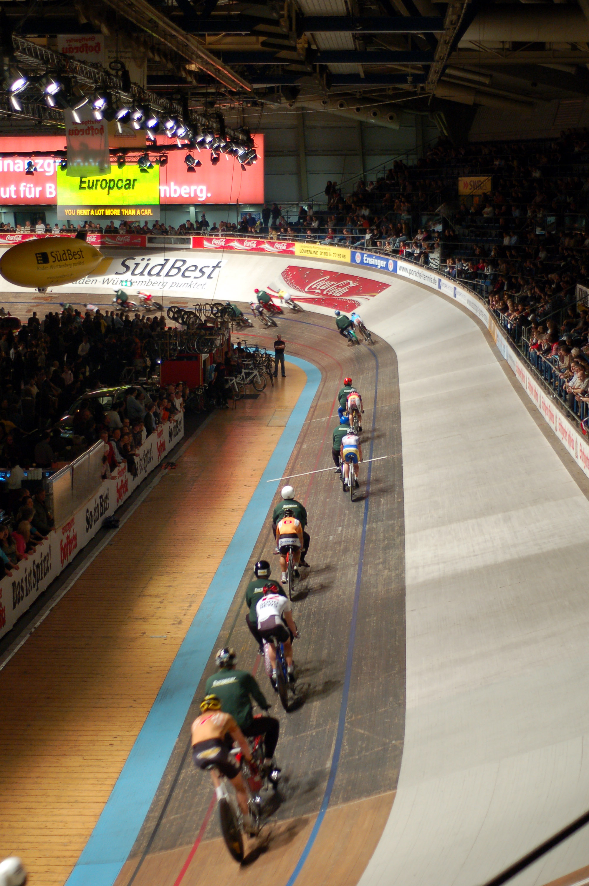 A derny race during the six days in Stuttgart on January 19th, 2008